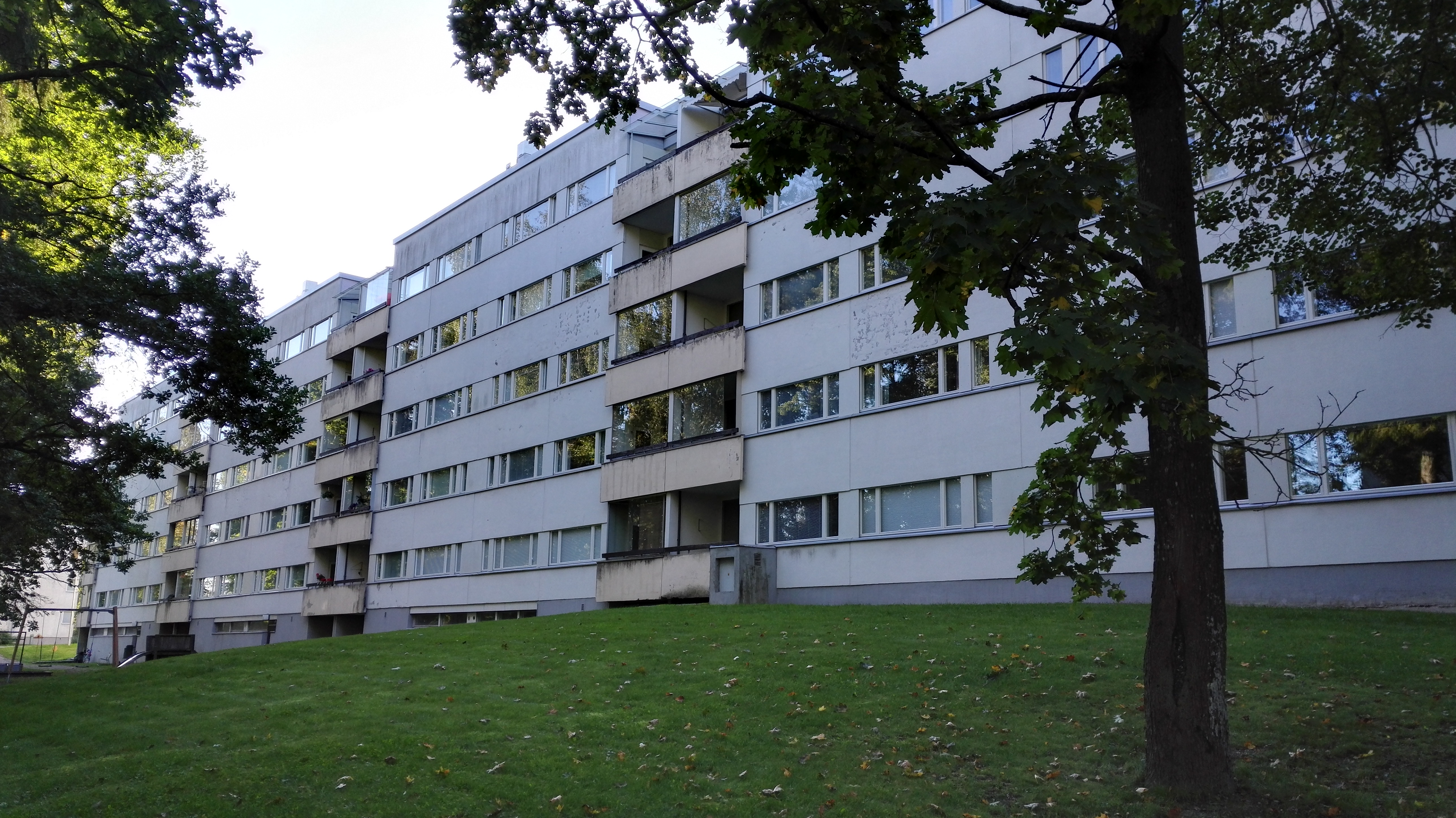 Lähdesuoni 20, 02720 Espoo